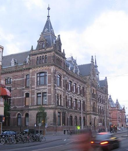 Former Amsterdam Conservatory from 1984 until 2008, Van Baerlestraat Amsterdam